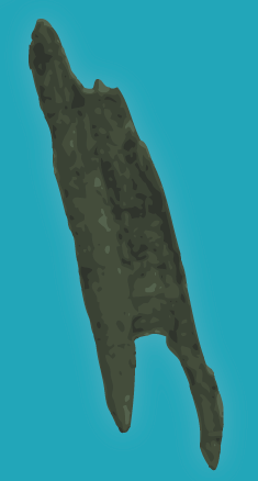 Pig Island in Lake Wakatipu from above Māori: Matau